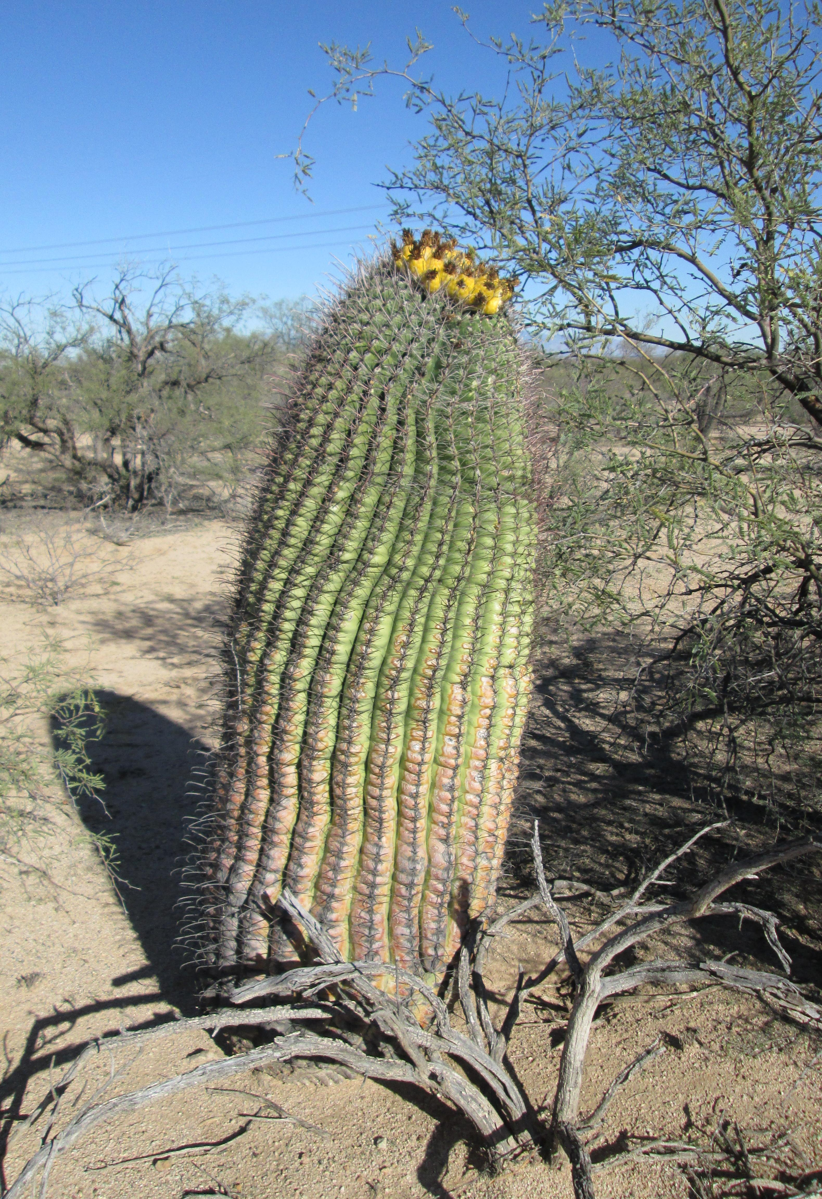 A giant Fishhook Barrel Cactus in Sahuarita, Arizona. Approximately 5.5 feet tall. Dec. 30 2013